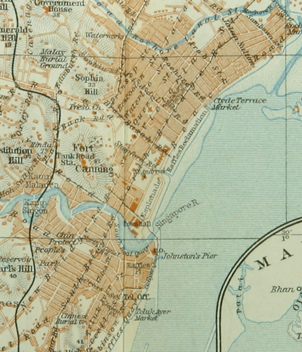 Map of the city of Singapore, ca 1914 (1:50,000), map cropped to focus on city center